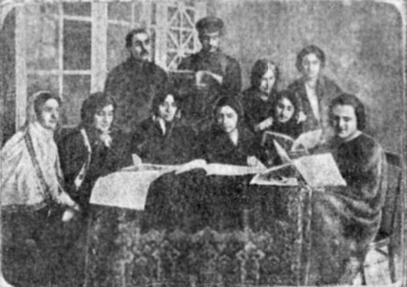 Redaction of the magazine "Woman of the East"